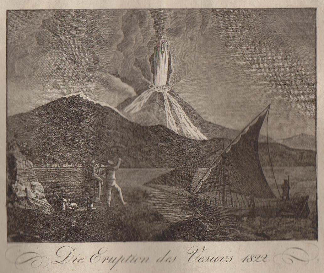 The eruption of the Vesuv on October 21-24, 1822, illustration to a detailed contemporary report of an anonymous author in the book "Recordings on notable objects and happenings", delivered in 1825 eight parts published during the year, bound as volume no. 5, p. 129.